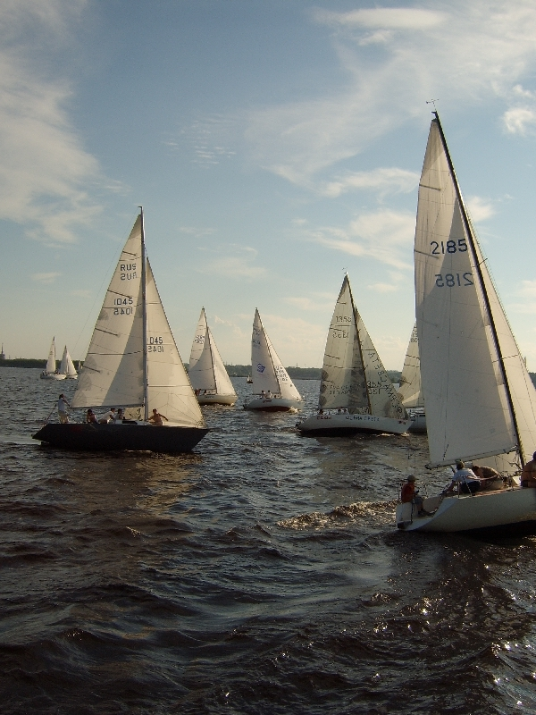 Sailing yachts in the regatta for the Kama Cup 2006.